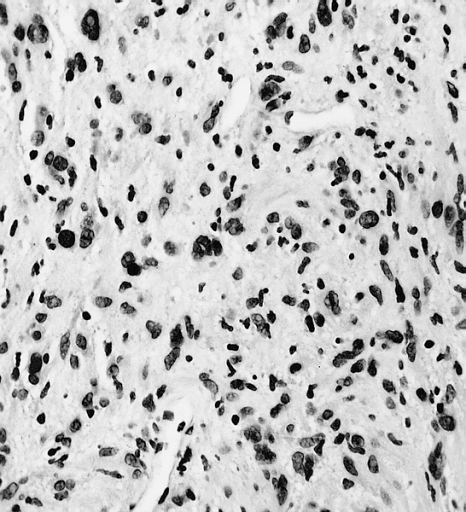 Image# 405551 Micro CNS: ANAPLASTIC ASTROCYTOMA Seen at low (left) and high (right) magnification, this degree of cellularity and pleomorphism warrants the diagnosis of anaplastic astrocytoma.